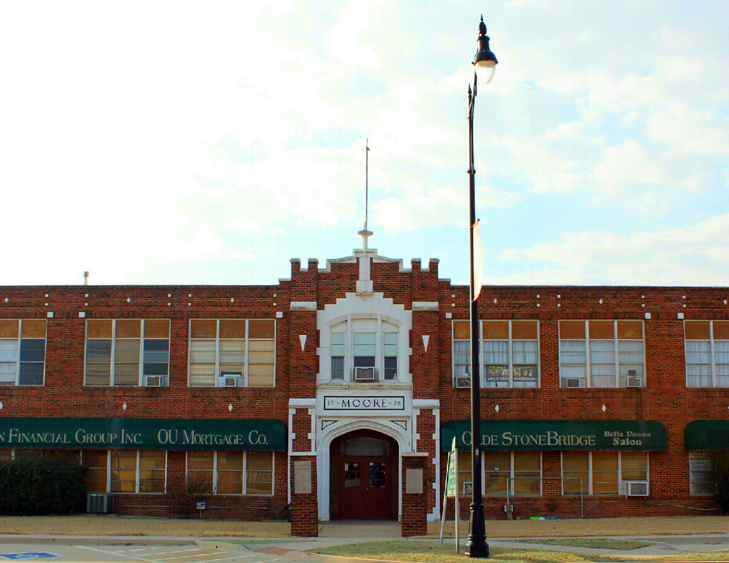 Moore Public School Building. View from West to East at Main entrance to building.